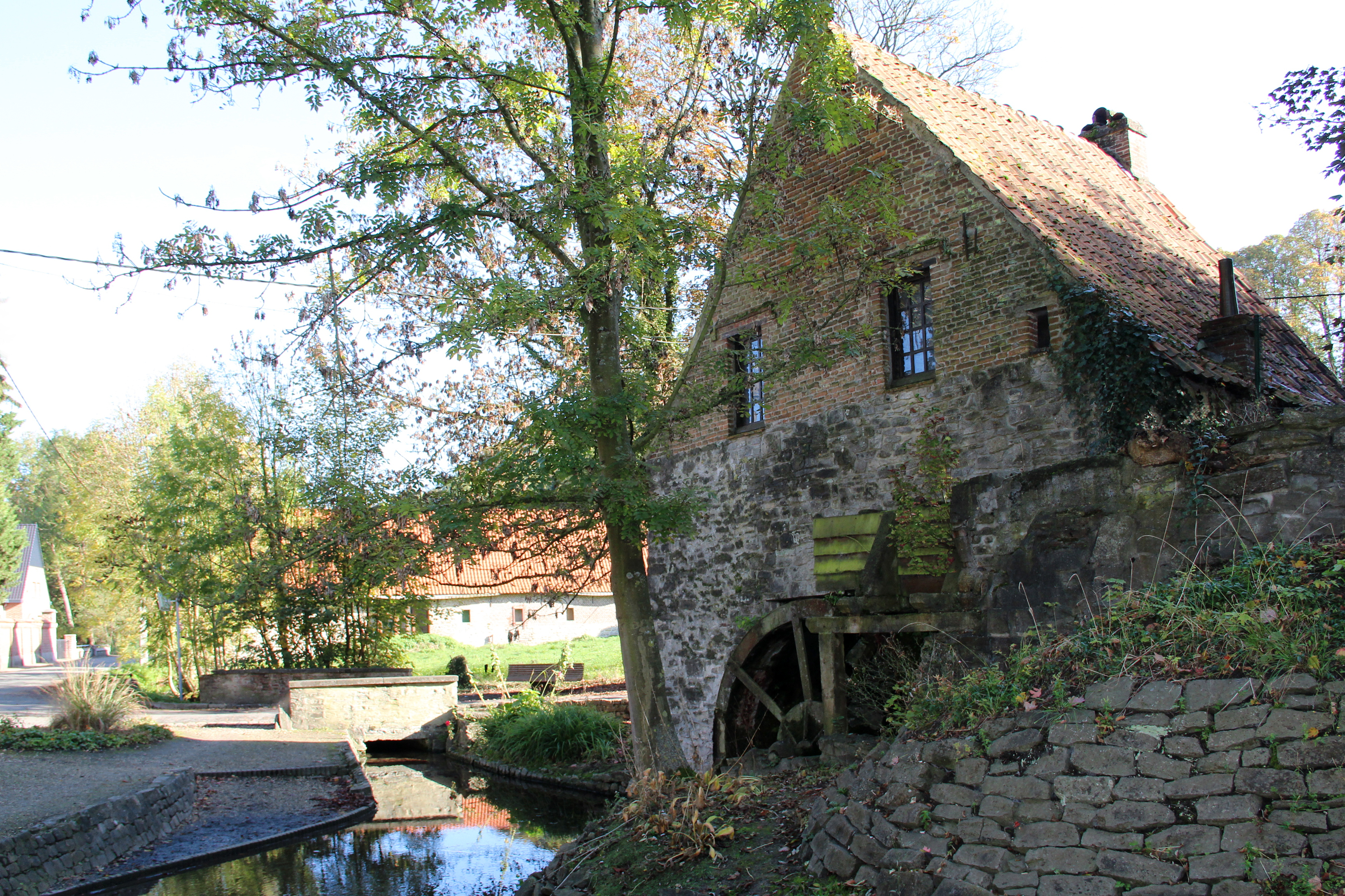 Froyennes (Belgium), the watermil (XIII-XVIth centuries).